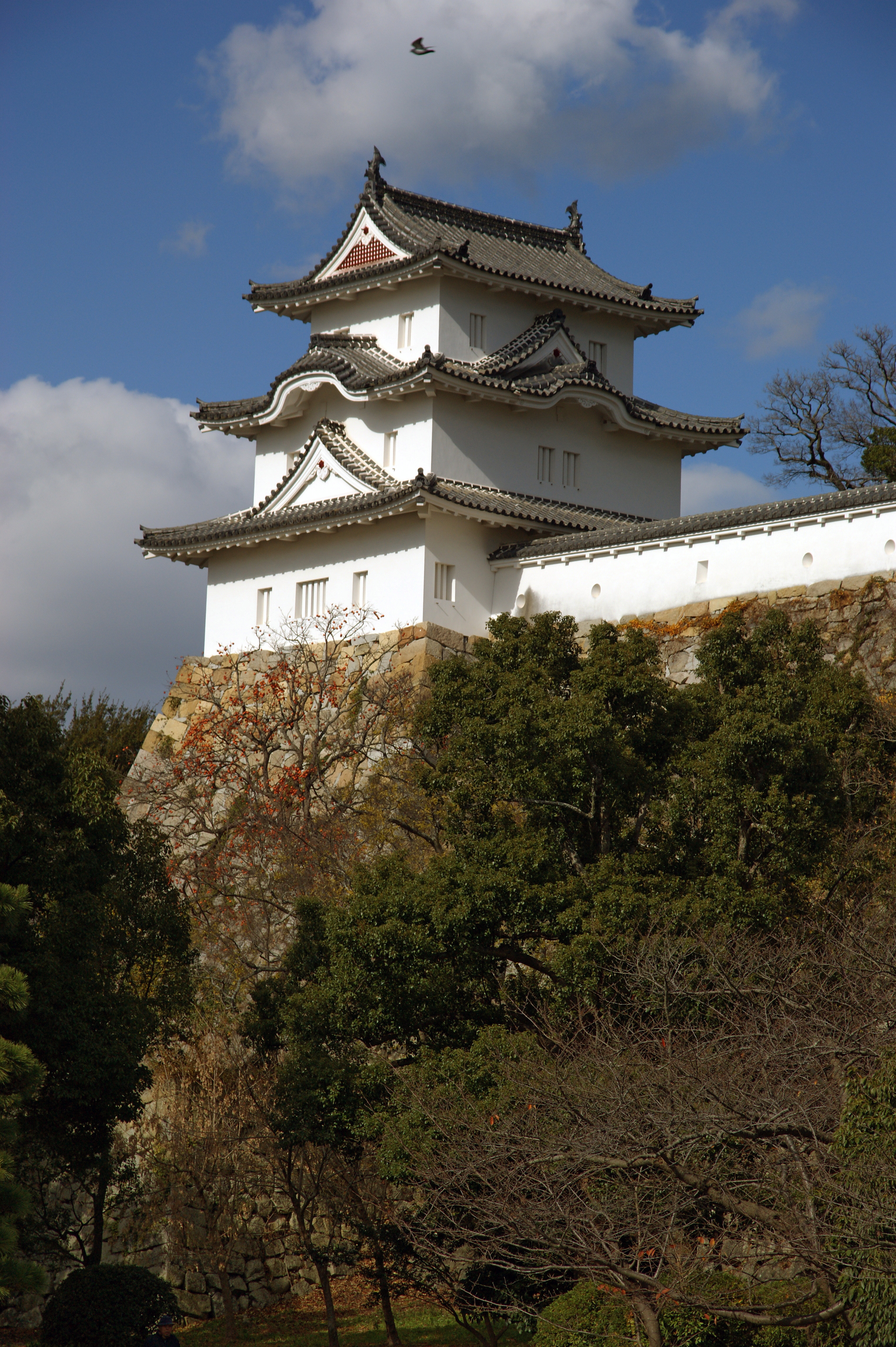 Akashi Castle (Akashi Park), Akashi, Hyogo prefecture, Japan